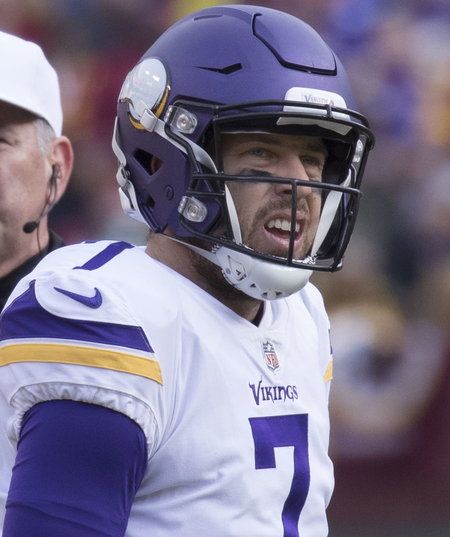 Minnesota Vikings quarterback, Case Keenum, playing against the Washington Redskins on November 12, 2017.